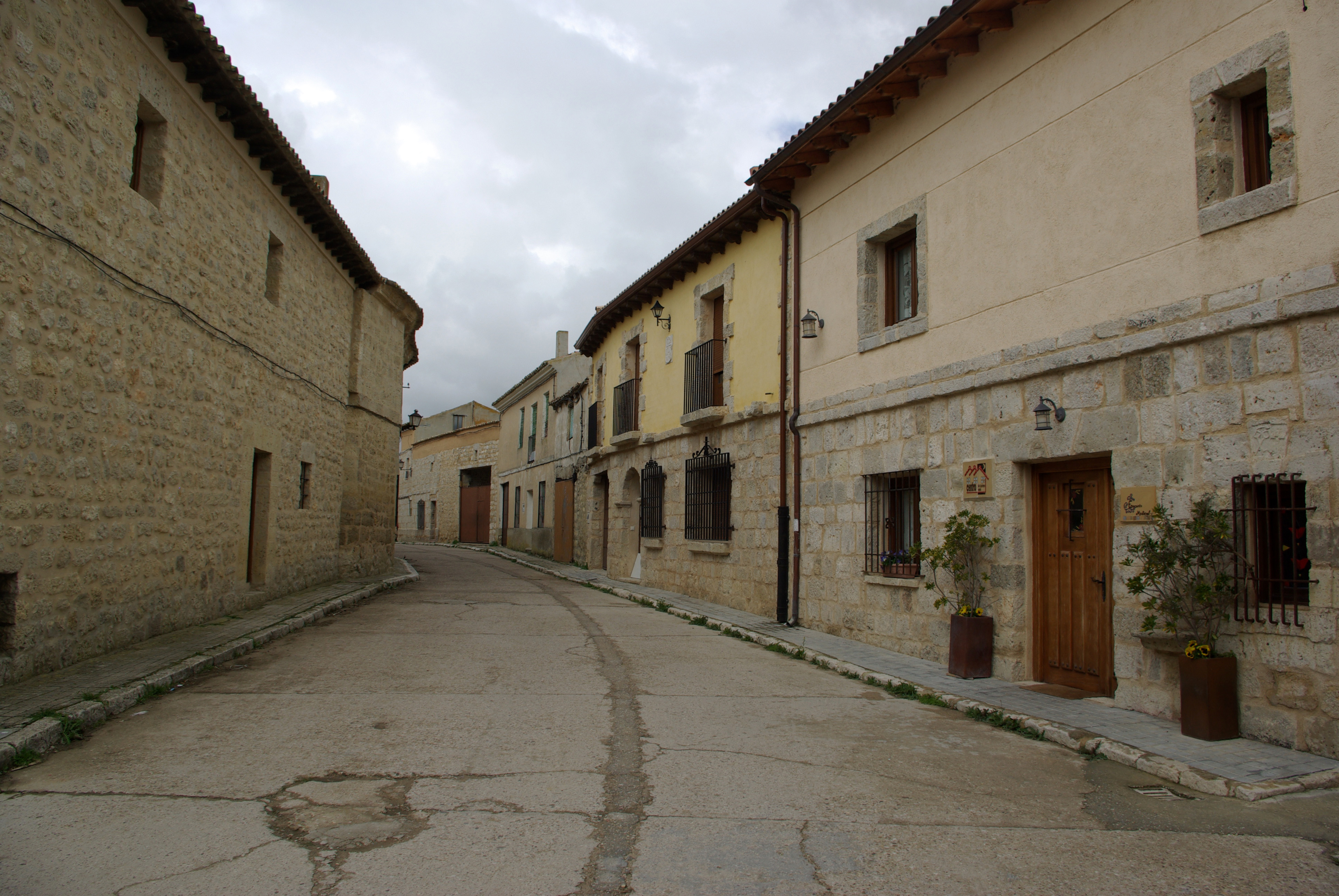 Montealegre de Campos (Valladolid, Spain).